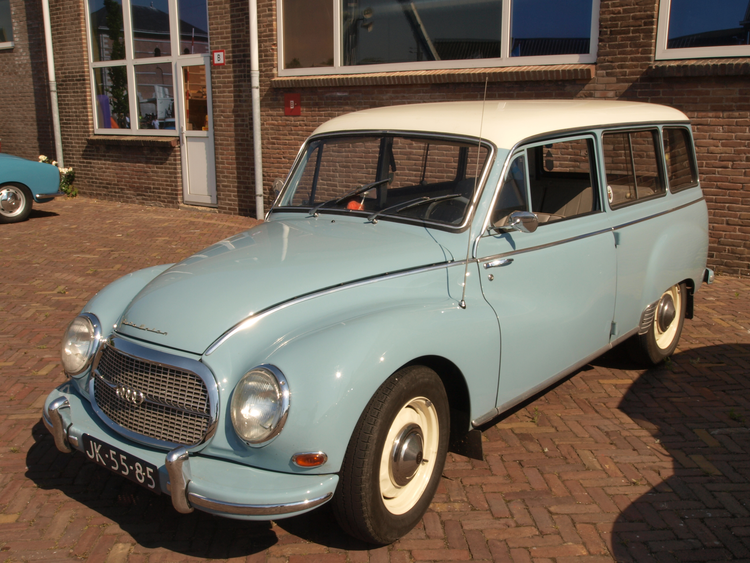 Photographed at Den Helder, The Netherlands. OLYMPUS DIGITAL CAMERA